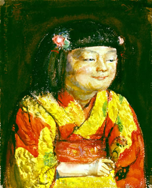 Reiko Smiling, by Kishida Ryusei, Uehara Museum of Modern Art, Shimoda, Shizuoka, Japan 麗子微笑像 岸田劉生筆